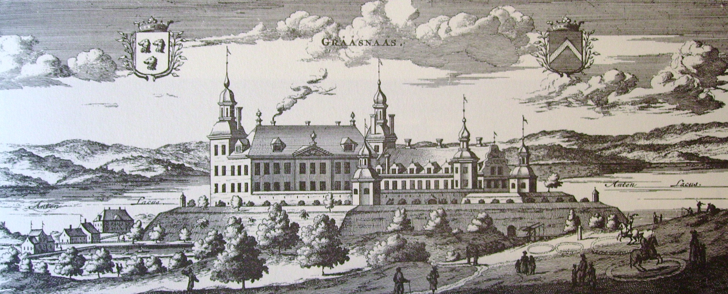 Picture of Gräfsnäs Castle in Västergötland